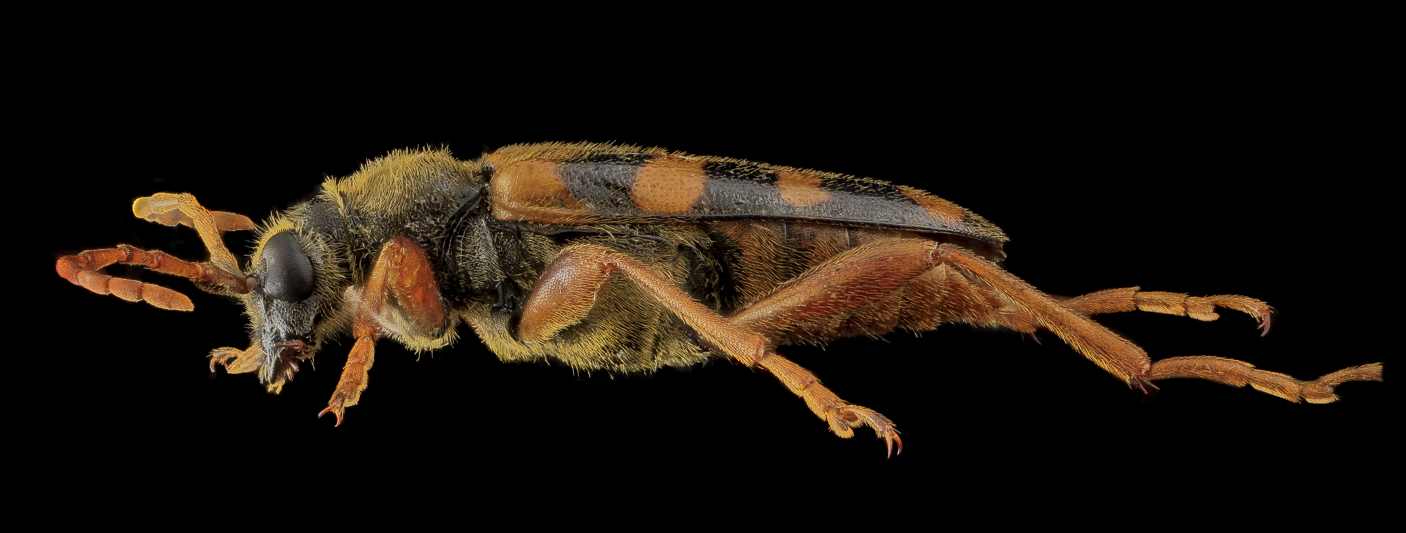 Xestoleptura crassicornis (LeConte, 1873) det. F. Vitali from Laurel Maryland collected in June by Francisco Posada